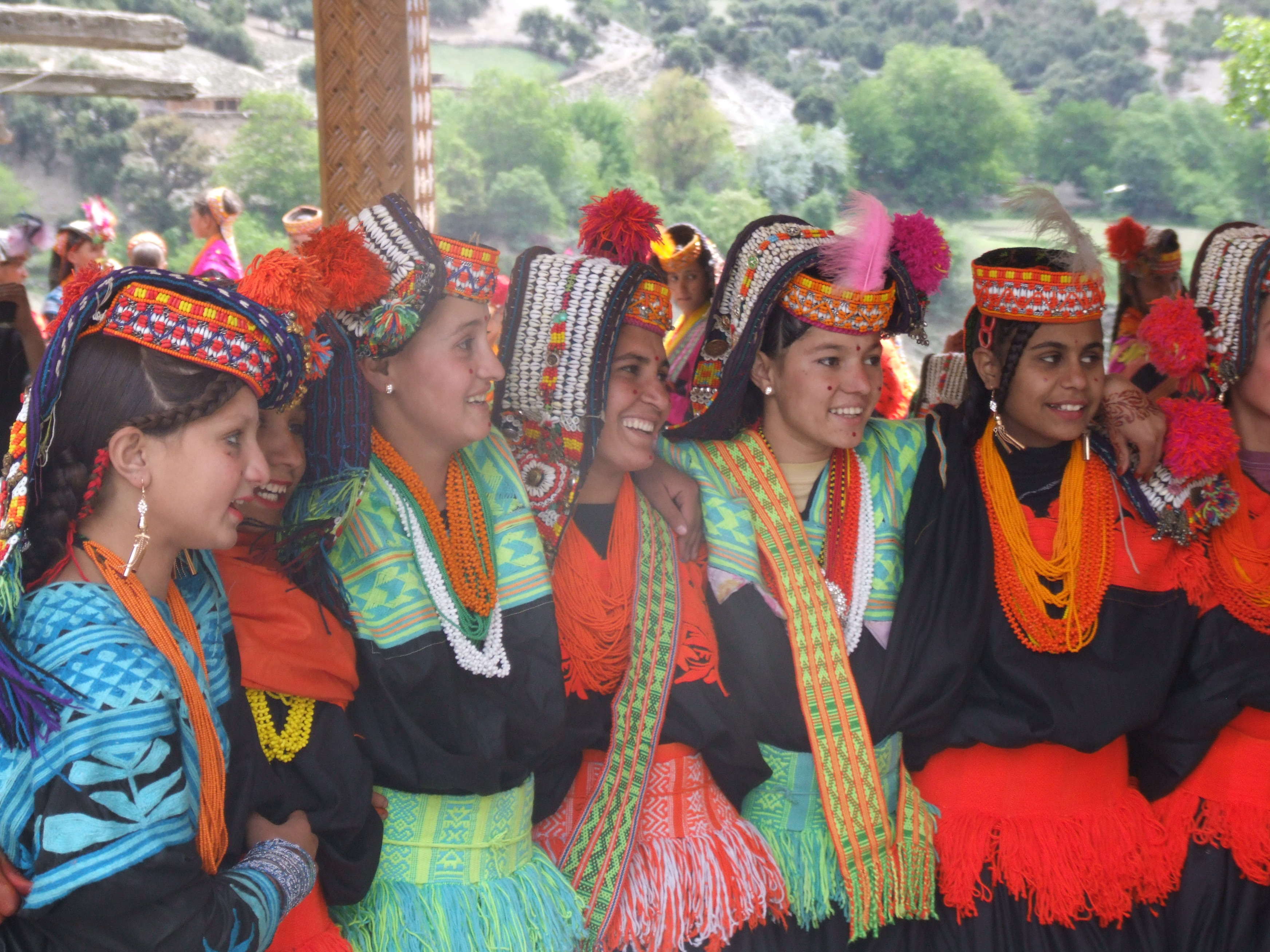 Ranbor Festival